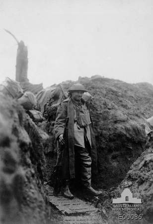 A member of the 39th Battalion, Australian Imperial Force, in the trenches near Houplines, France, December 1916